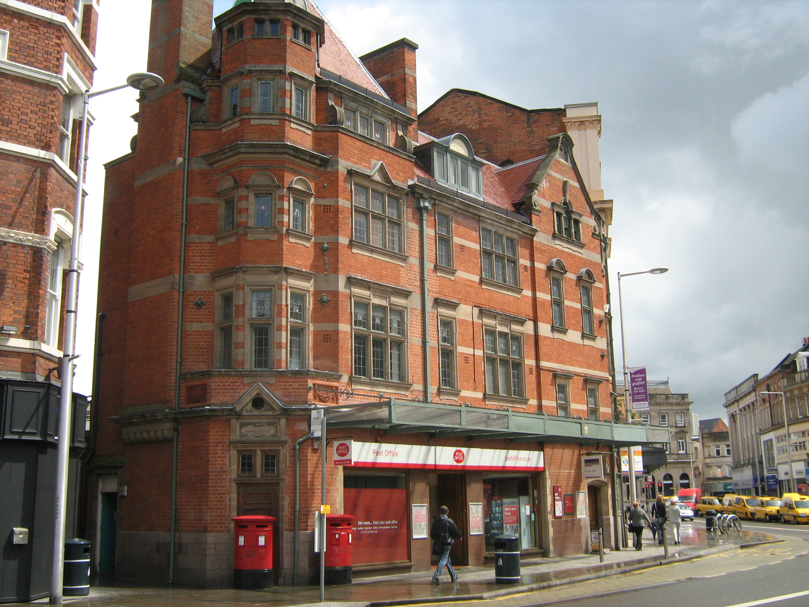 Post Office (Former Tramway Offices) Wikidata has entry Q26668719 with data related to this item. Building on Victoria Street, originally tramway offices. The photo was taken in 2011 when the ground floor was in use as a Post Office (replacing the Post Office which was on the corner of Victoria Street and St James Street, closed in the late 1990s). In 2017, the ground floor was converted into a bar/restaurant "The Post House".